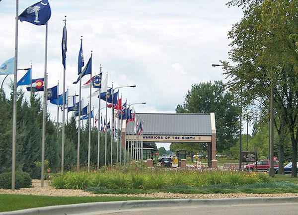 Main Gate at Grand Grand Forks AFB, North Dakota